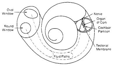 I drew this picture of the cochlea showing some detailed structure and function, about 15 years ago.